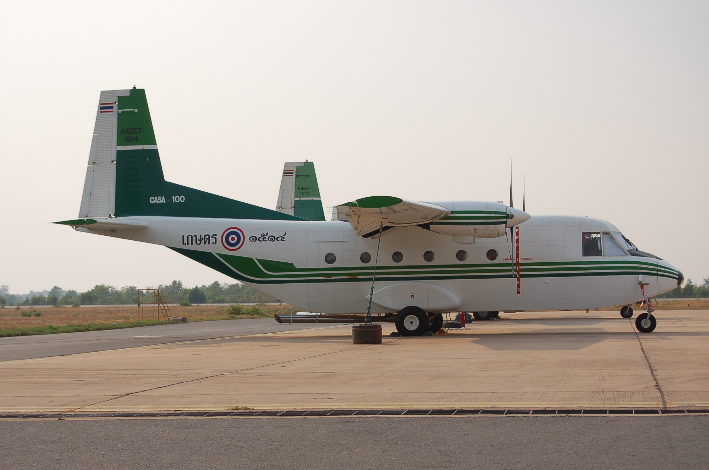 Casa 212 of KASET-Bureau of Royal Rainmaking & Agricultural Aviation at Khon Kaen-KKC,Thailand, 13/03/13.